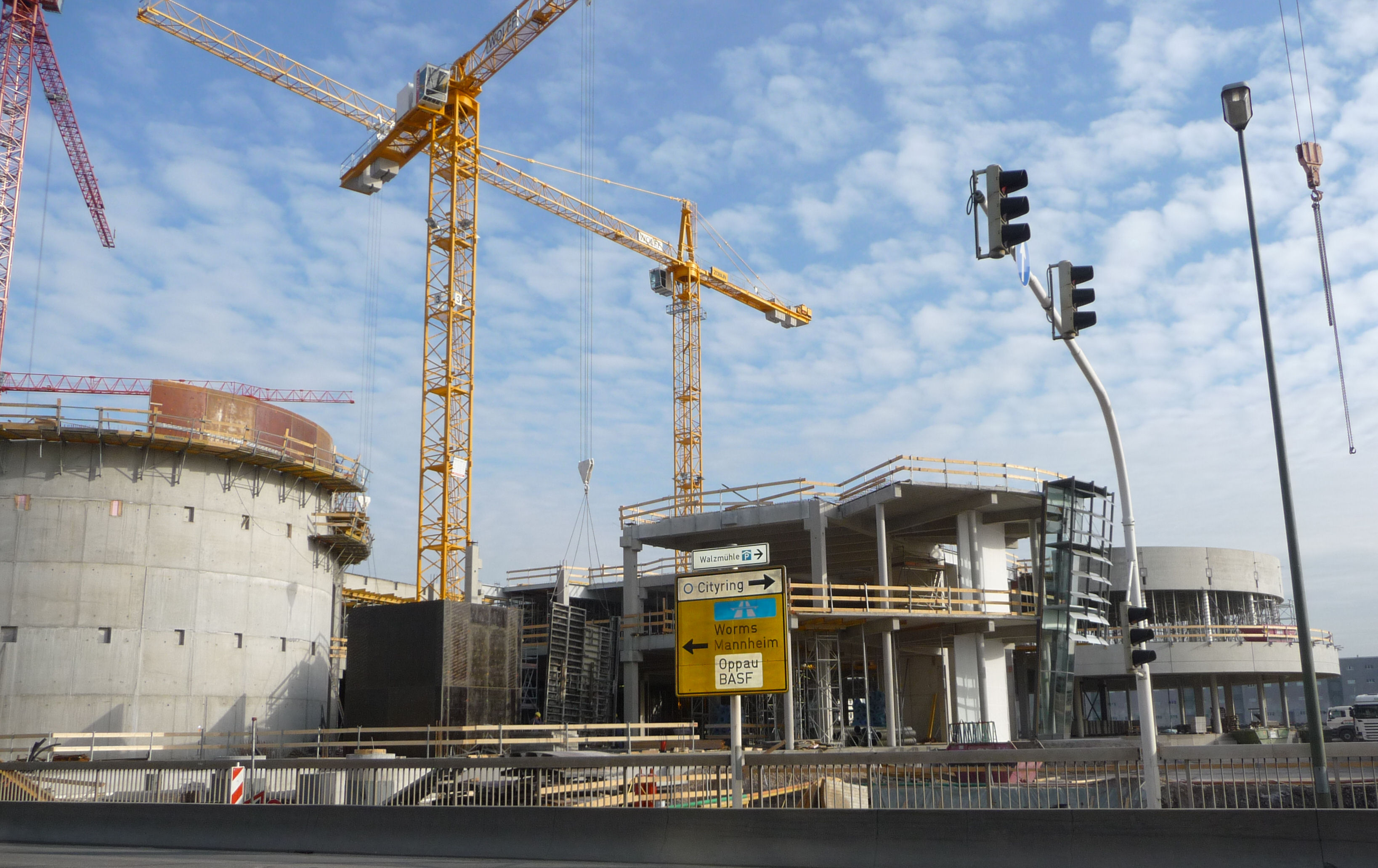 Rhein-Galerie in Ludwigshafen, Germany